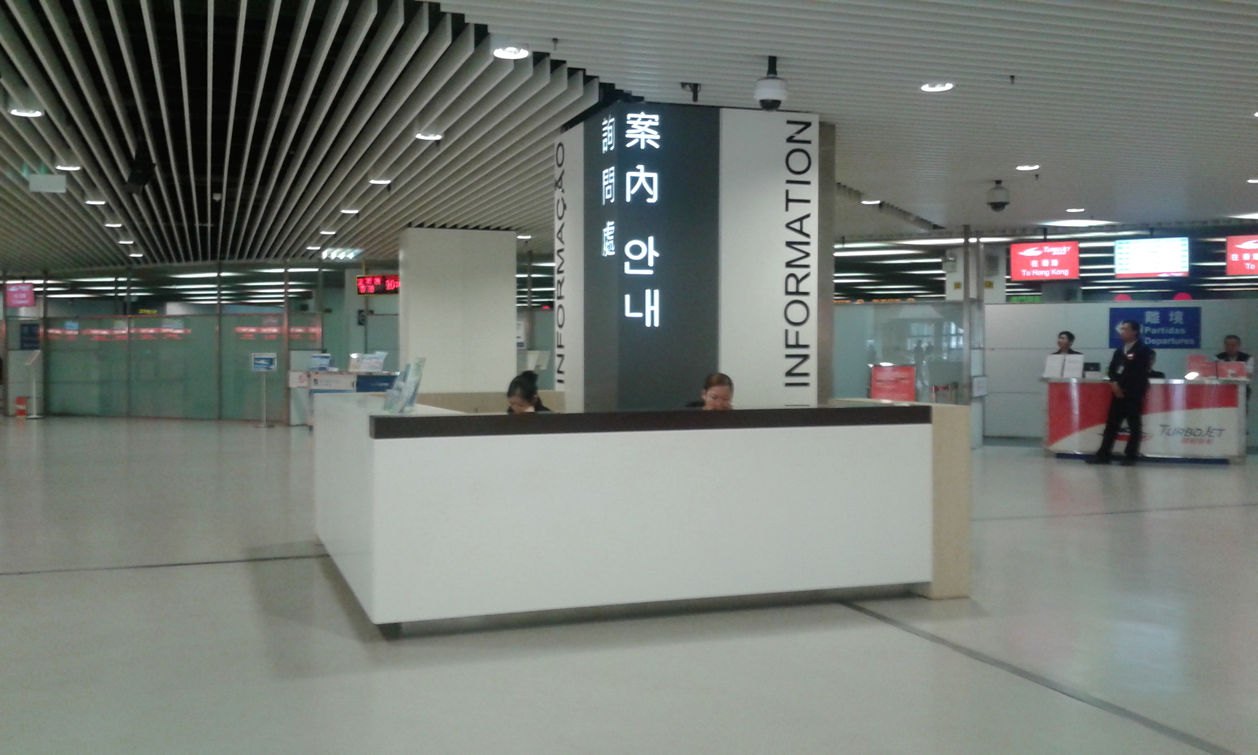 Information Centre in The Outer Harbour Ferry Terminal